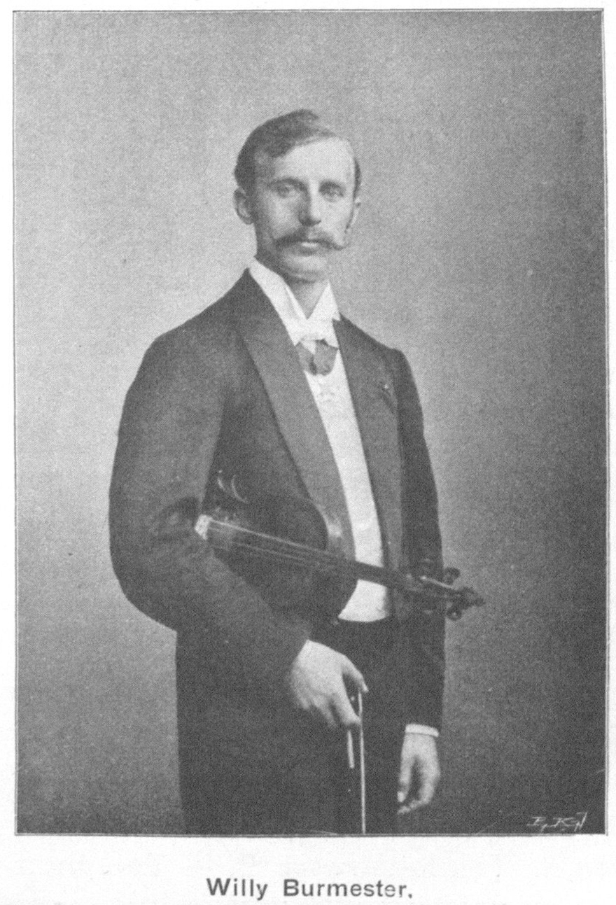 Willy Burmester (1869-1933), German violinist and composer